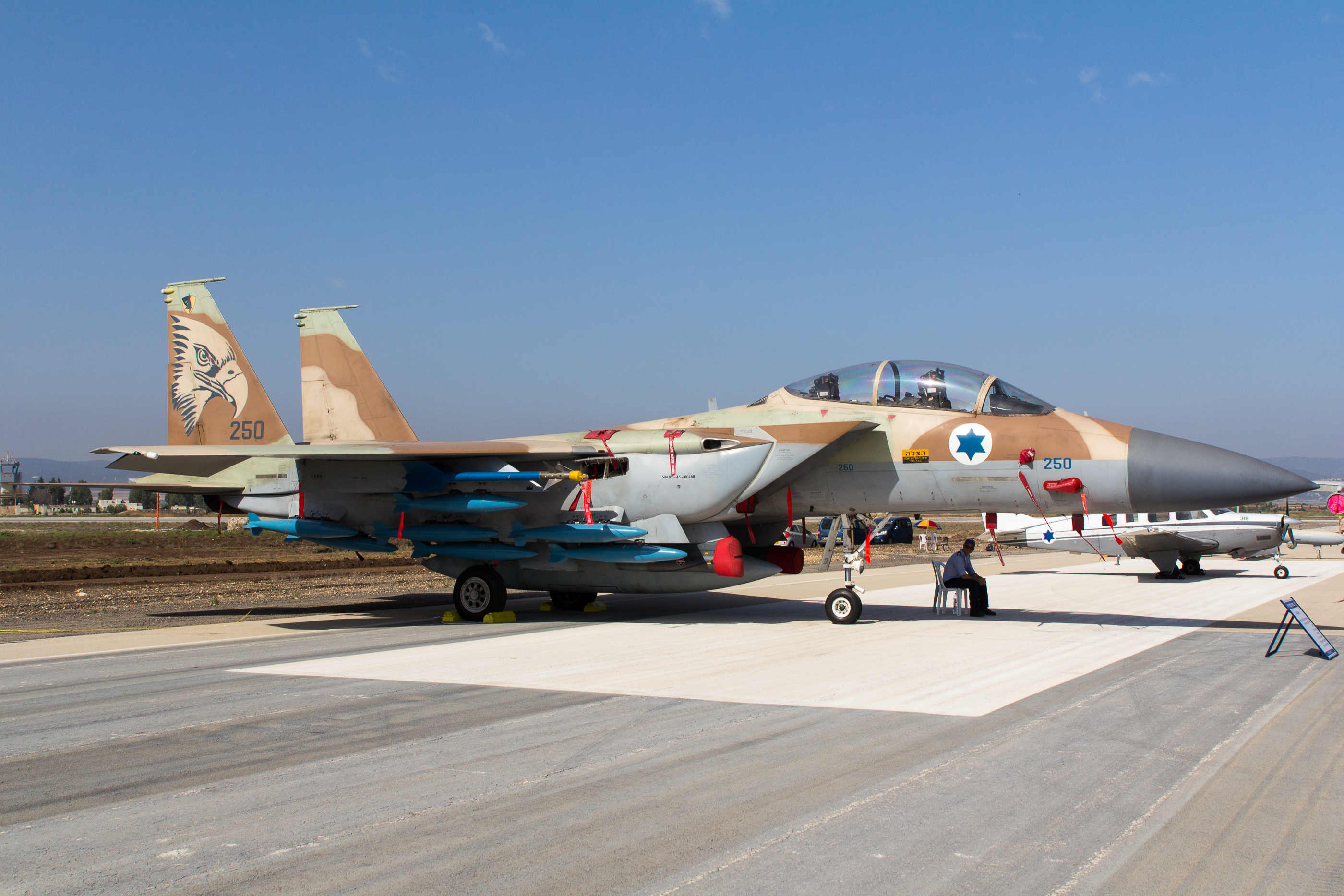 69 Squadron F-15I Thunder at the Israeli Air Force exhibition at Ramat David AFB on Israel's 69th Independence Day